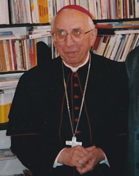 Auxiliary Bishop of Roman Catholic Archdiocese of Bratislava-Trnava Dominik Tóth